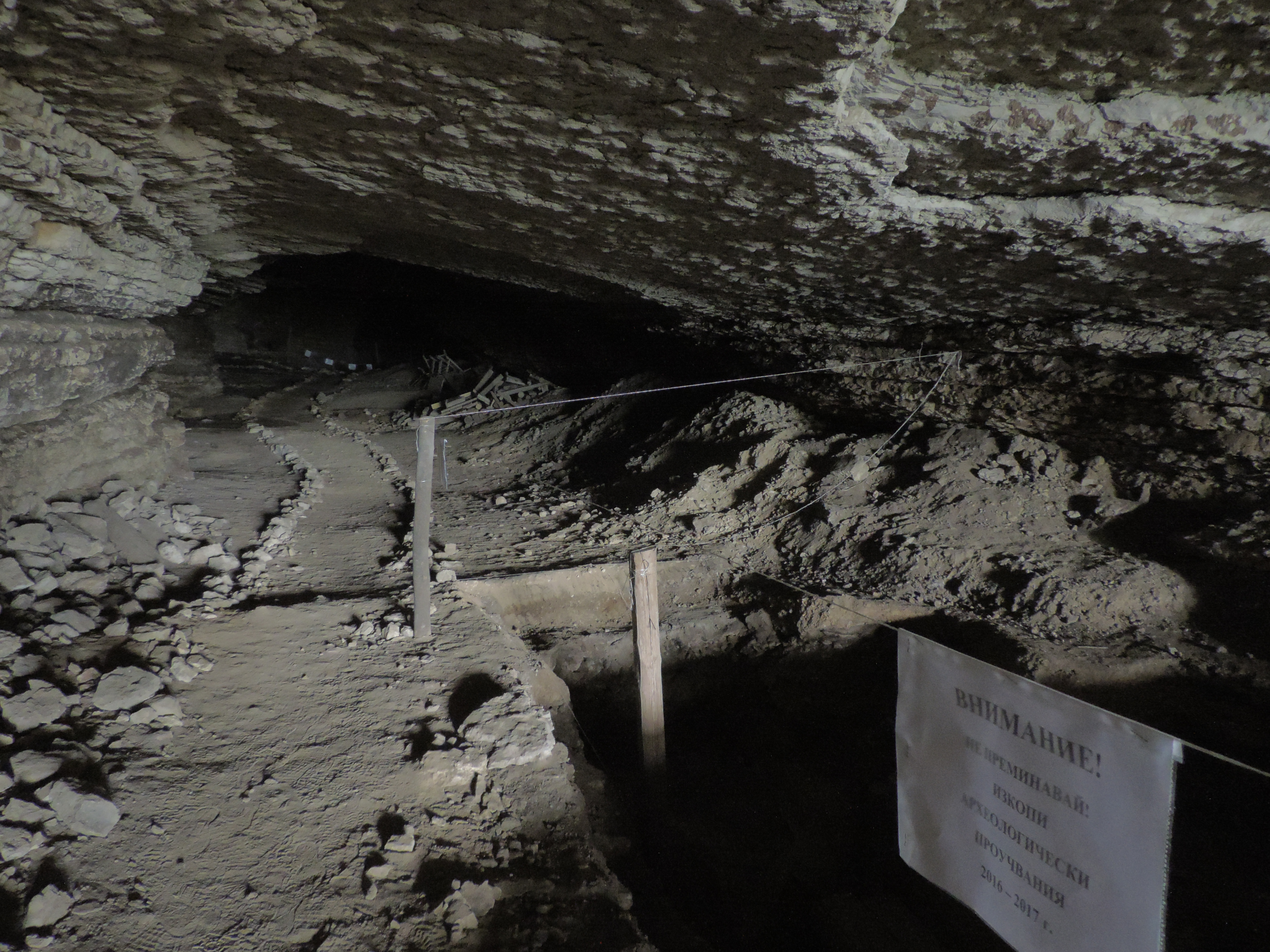 Archaeological excavations at the entrance of the Kozarnika Cave, Balkan mountain, Dimovo Municipality, Bulgaria